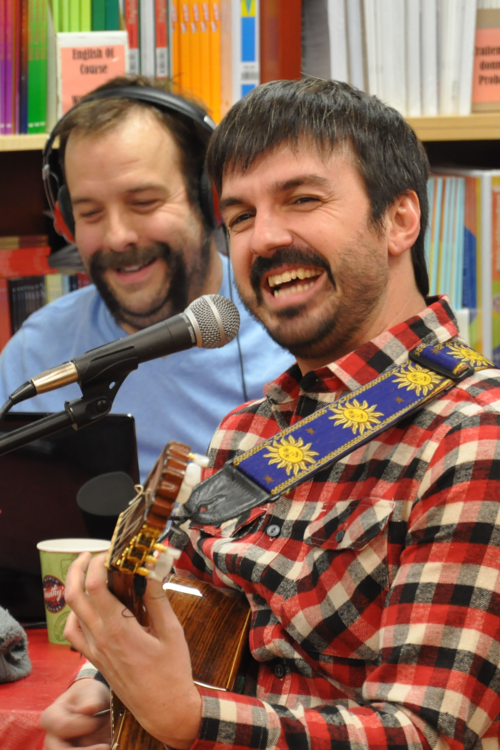 Damien Robitaille at the Librairie du Centre in Sudbury for the promotion of Robitaille's Album Omniprésent, with Stéphane Paquette from radio Le Loup FM 98,9